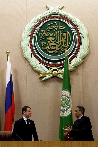 CAIRO. Speech at meeting of the permanent representatives of the League of Arab States. With the organisation’s Secretary-General, Amr Moussa.